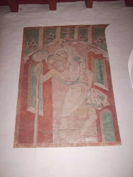 St. Hans church in Hjørring, Denmark.